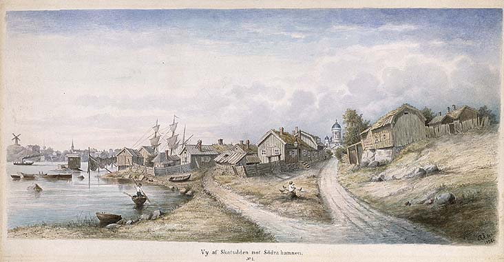 Rudolf Åkerblom, View from Katajanokka no.1. Watercolour. Buildings on Ankkurikatu and Kruunuvuorenkatu, in the centre of the peninsula. Nikolainkirkko (now the Helsinki Tuomiokirkko Cathedral) looks out regally above the end of what was then Kauppakatu. Rudolf Åkerblom deliberately painted scenes which chronicle the changing city. A number of the views in his watercolours are the same as those photographed by Signe Brander. Some of his most famous works are those with Katajanokka as the subject. They were painted in the 1870s but provide information on the buildings situated on the outskirts of the city in the 1700s. At the time, the area plan for Katajanokka was still under development, with the wood buildings - which had become slums - making way for stone houses.